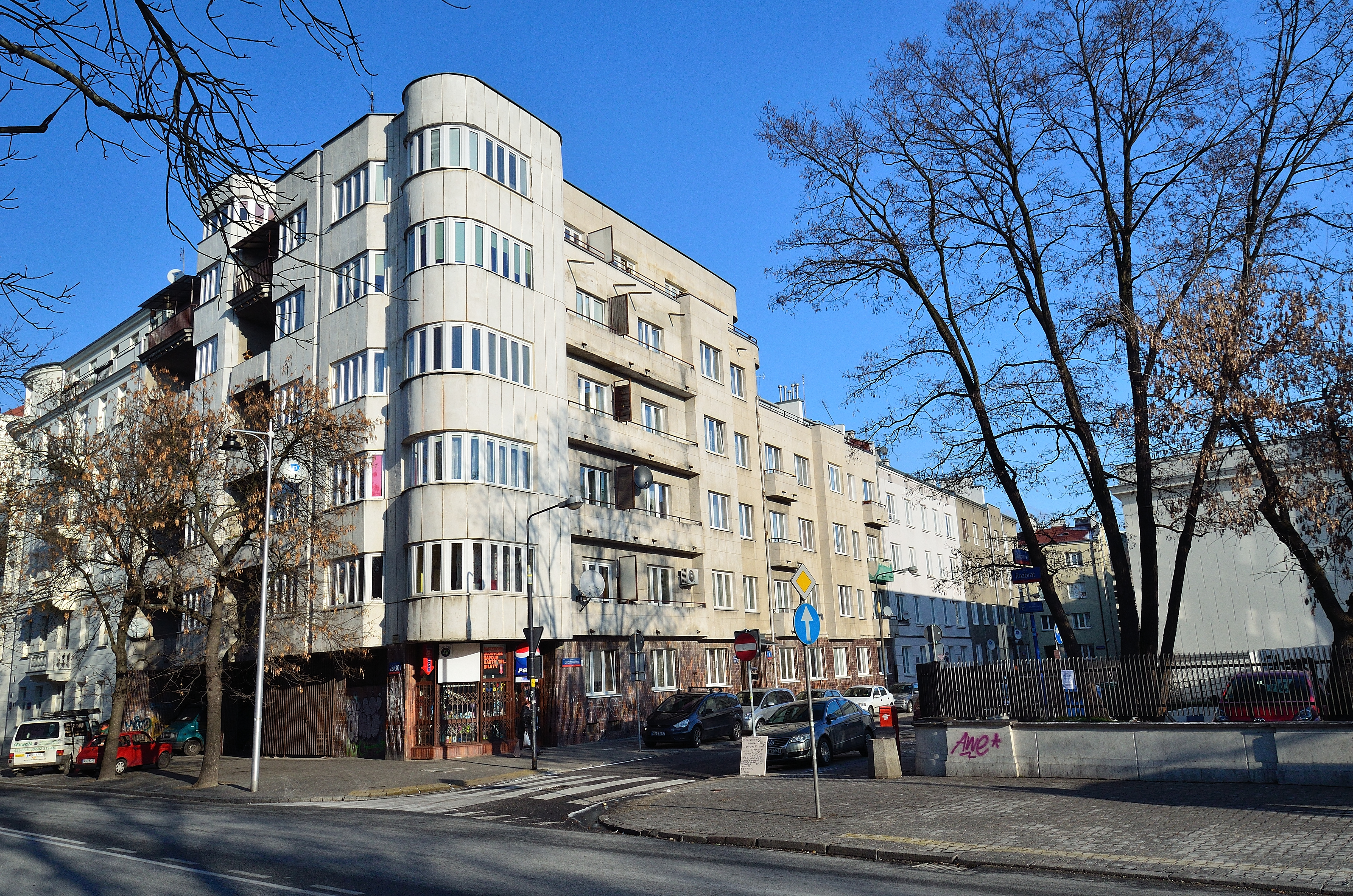 Crossroads of Rozbrat and Dmochowskiego streets in Warsaw